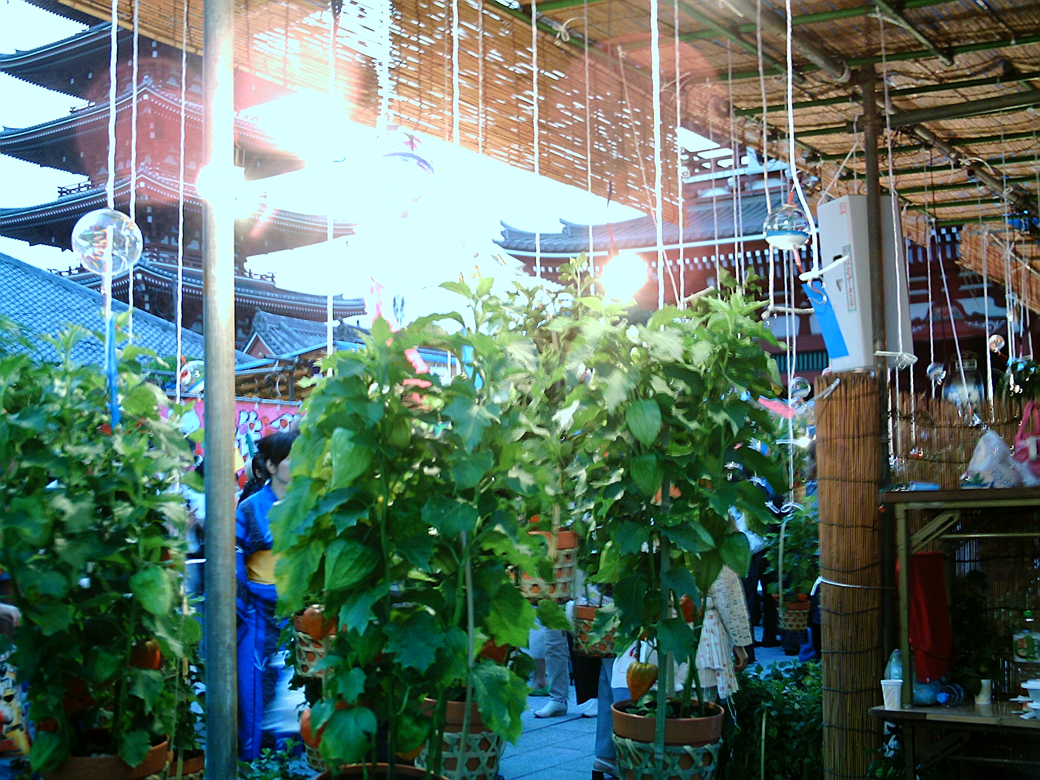 Sensoji @ Asakusa, Tokyo ??????,?? Taken with a VistaQuest VQ3007 See also: Photo Set : VistaQuest VQ3007 Comparison : VQ1005 and VQ3007, Minidigi and VQ3007, Minidigi and VQ1005 and VQ3007 ???????? Photo Set???????? VQ3007 ?????VQ1005 ? VQ3007, ???? ? VQ3007, ???? ? VQ1005 ? VQ3007 ???????????????VQ3007????, ?????VQ1005?VQ3007????